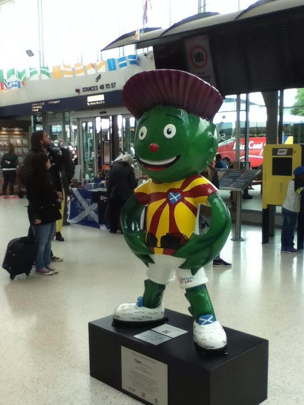 Another clyde mascot statue in Glasgow Buchanan Bus Station. Other information Clyde statue